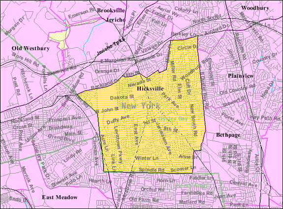 U.S. Census 2000 reference map for Hicksville